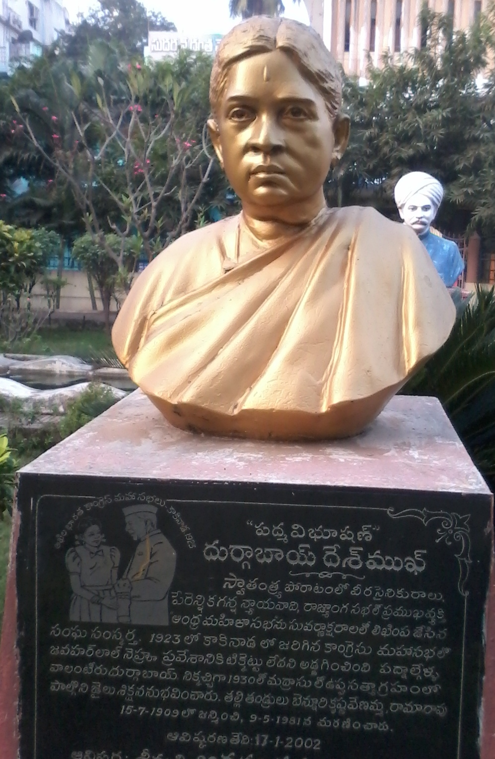 this is the photograph of Smt Durgabai Deshmukh statue, located in swatantra samara yodhula park(park dedicated to freedom fighters) in rajahmundry